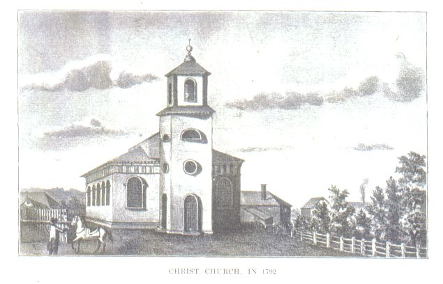 Christ Church in 1792 drawing. Cambridge, Massachusetts. Credits Image from 2005 Parish Profile, doubtless from the CCC archives.